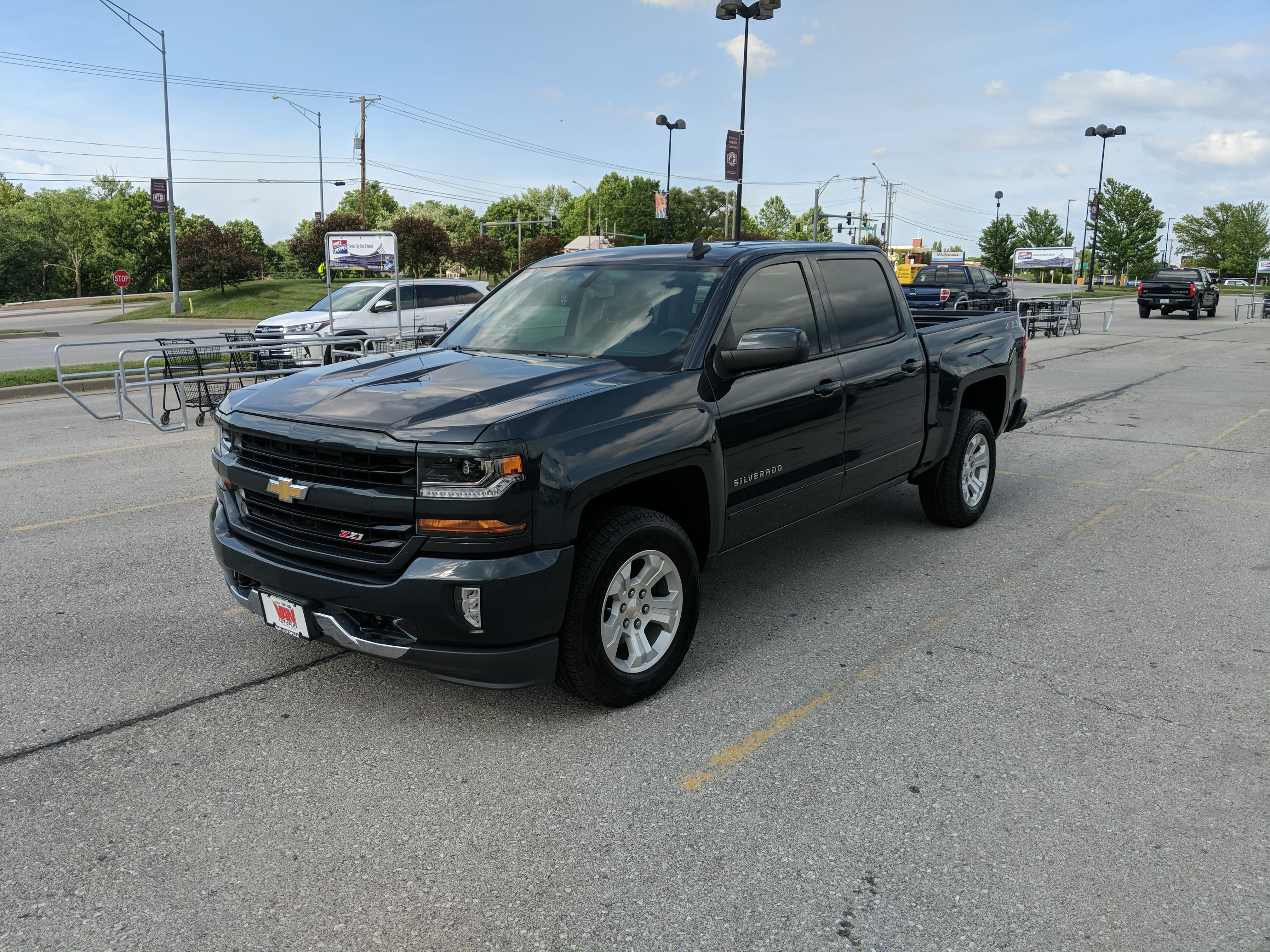 2018 Silverado 1500 LT Z71, Crew cab, Graphite Metallic color